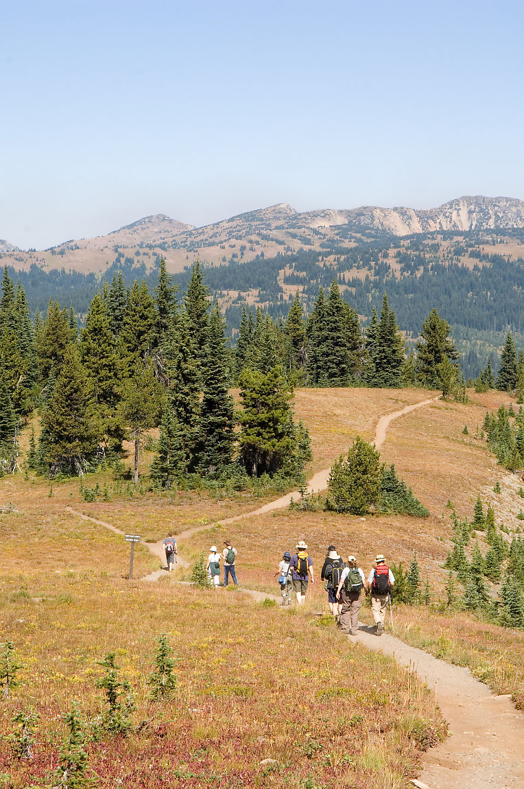 Hiking in the alpine zone of E.C. Manning Provincial Park, British Columbia